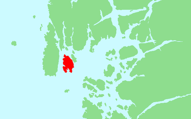 Locator map of Vestre Bokn, Rogaland, Norway